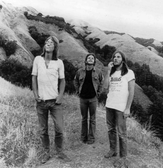 Promotional photo of the music group America. L to R: Gerry Beckley, Dan Peek, Dewey Bunnell